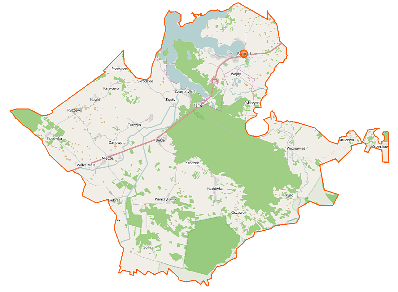 Map of Gmina Rajgród, PolandThis map of Rajgród (gmina) was created from OpenStreetMap project data, collected by the community. This map may be incomplete, and may contain errors. Don't rely solely on it for navigation.